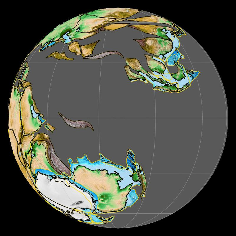 A plate tectonic reconstruction of Asia in 19 images. View centred on 0°,105°. Made using Gplates and the following data sets: Amante, C. and Eakins, B. W. 2009. ETOPO1 1 Arc-Minute Global Relief Model: Procedures, Data Sources and Analysis. NOAA Technical Memorandum NESDIS NGDC-24, 19. Wright, N., S. Zahirovic, R. D. Müller, and M. Seton (2013), Towards community-driven, open-access paleogeographic reconstructions: integrating open-access paleogeographic and paleobiology data with plate tectonics, Biogeosciences, 10, 1529-1541